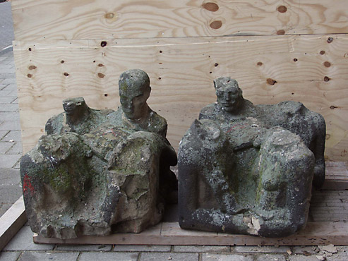 A damaged original carving in tuff stone by Hildo Krop: Human Energy